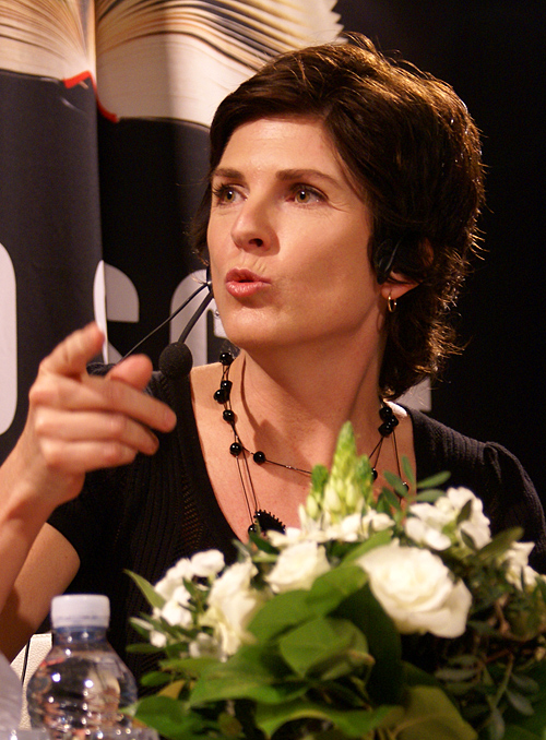 Kirsten Hammann, Danish writer.